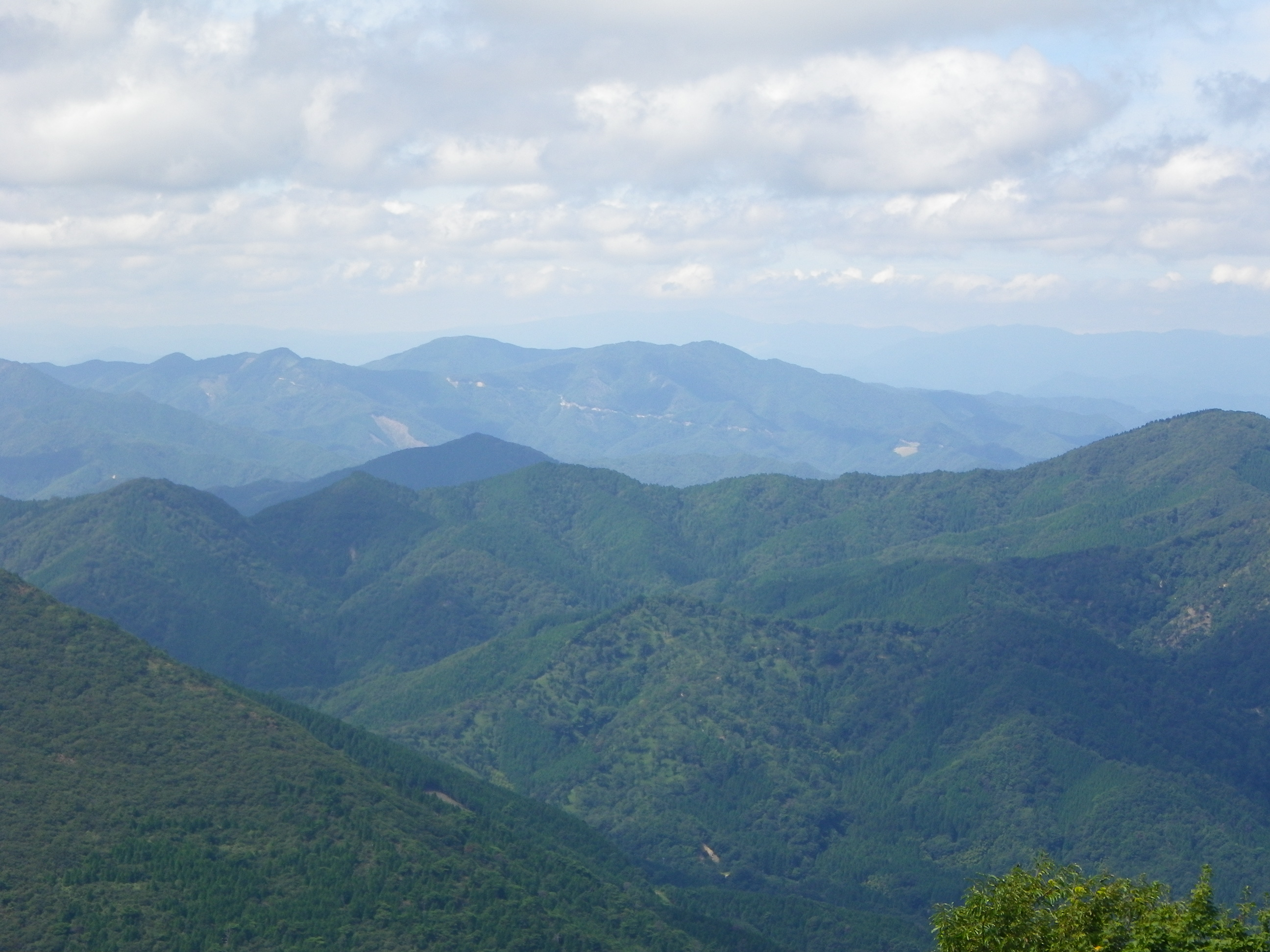 Mt.Nishitokonoo (Nishitokonoosan) and Mt.Higashitokonoo (Higashitokonoosan) as seen from the east. Taken from Mount Oe.